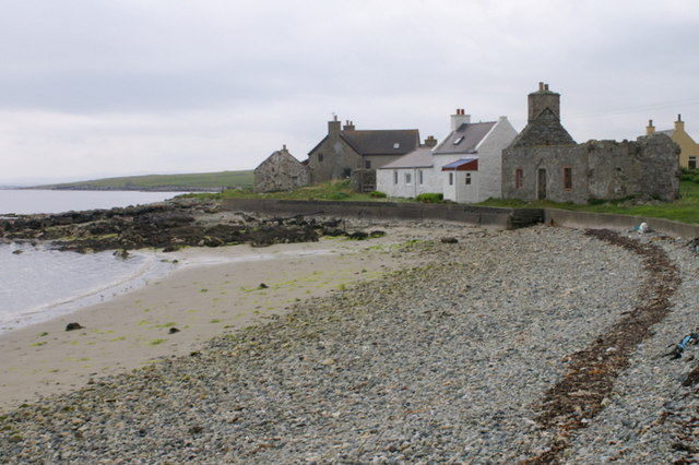 Westside, Uyeasound A small group of houses between Gardiesfauld and Rockfield.